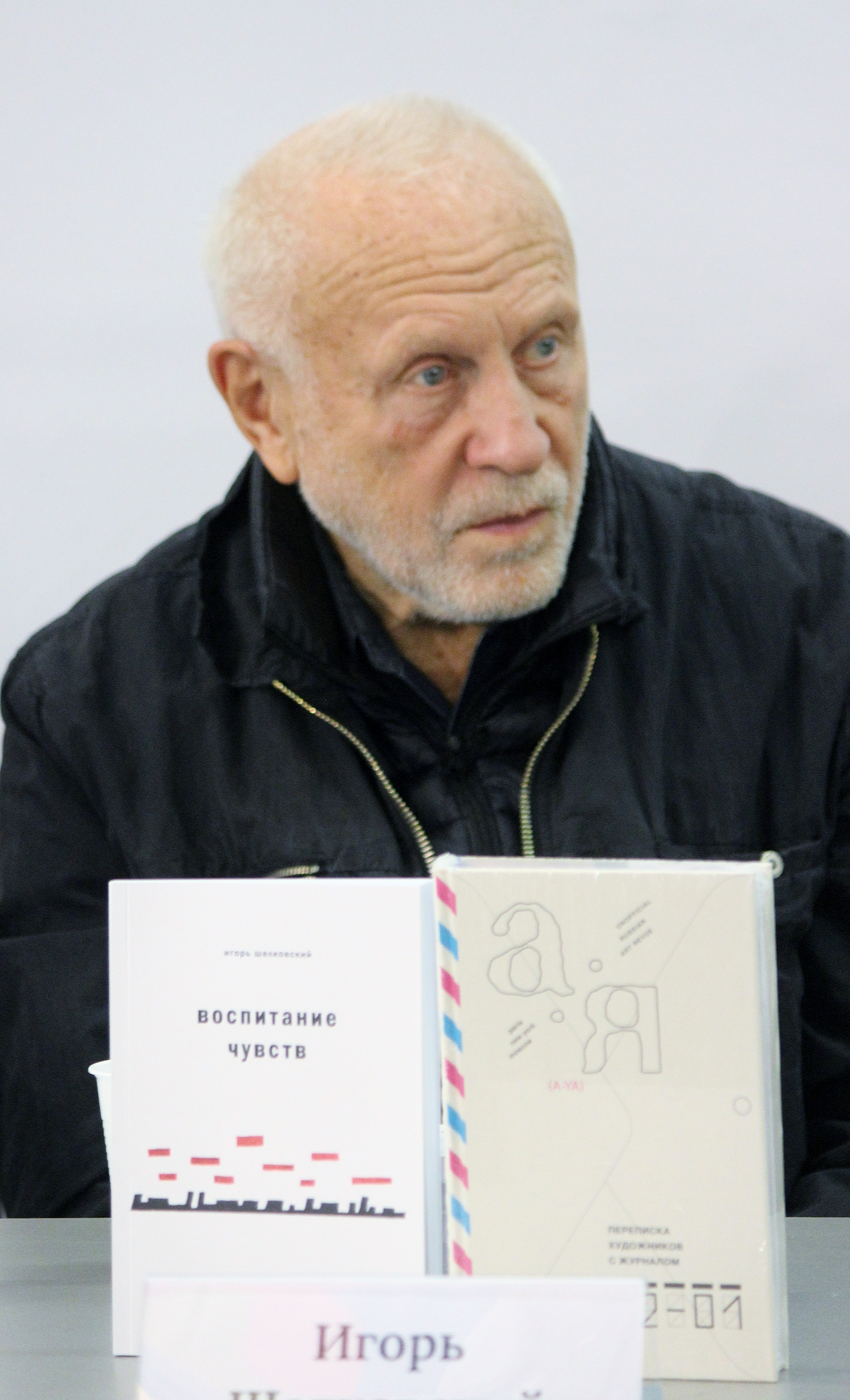 Russian painter and sculptor Igor Shelkovsky at the 20 Moscow International Fair Non/fiction 2018